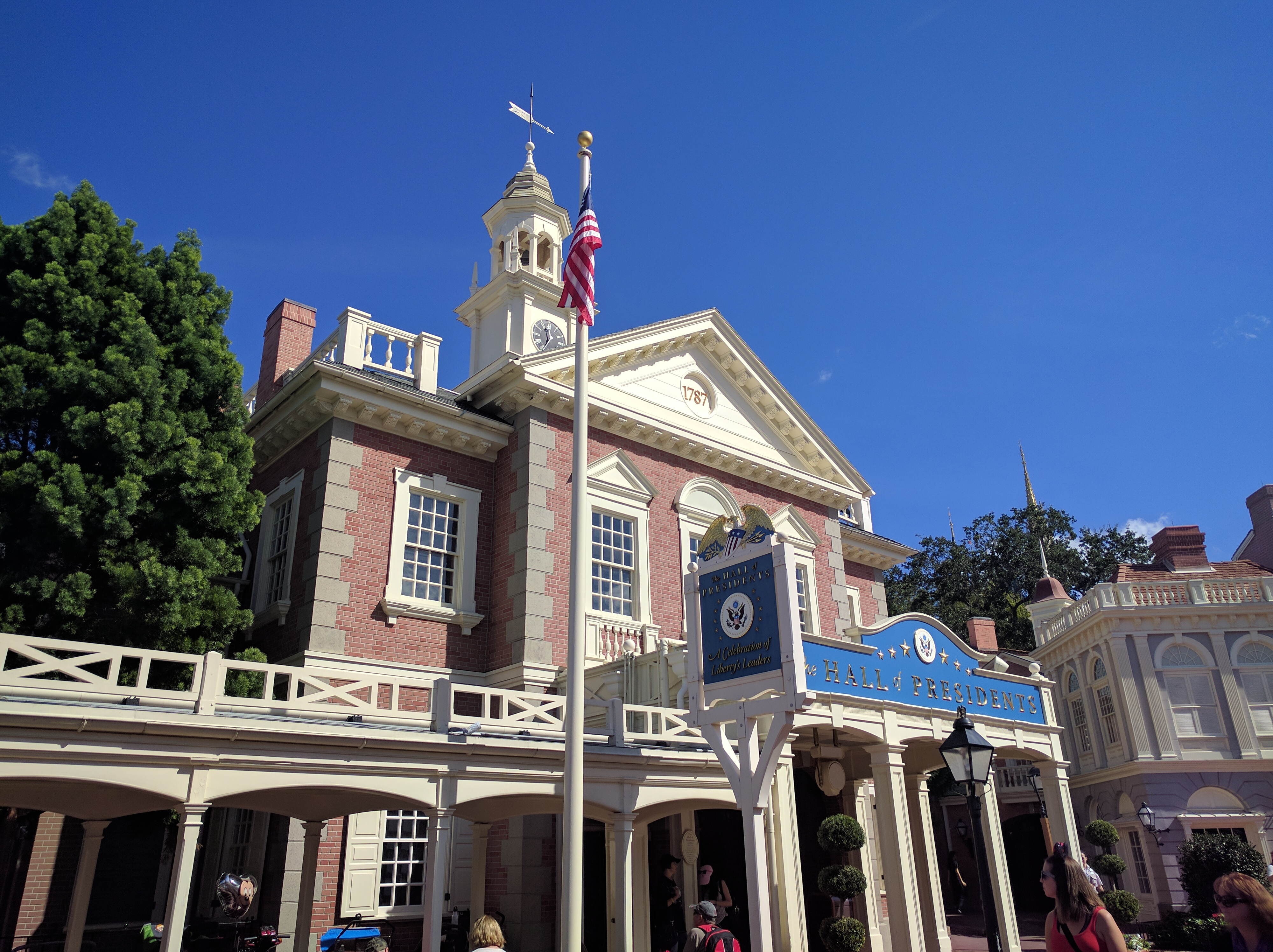 Hall of Presidents on Election Day